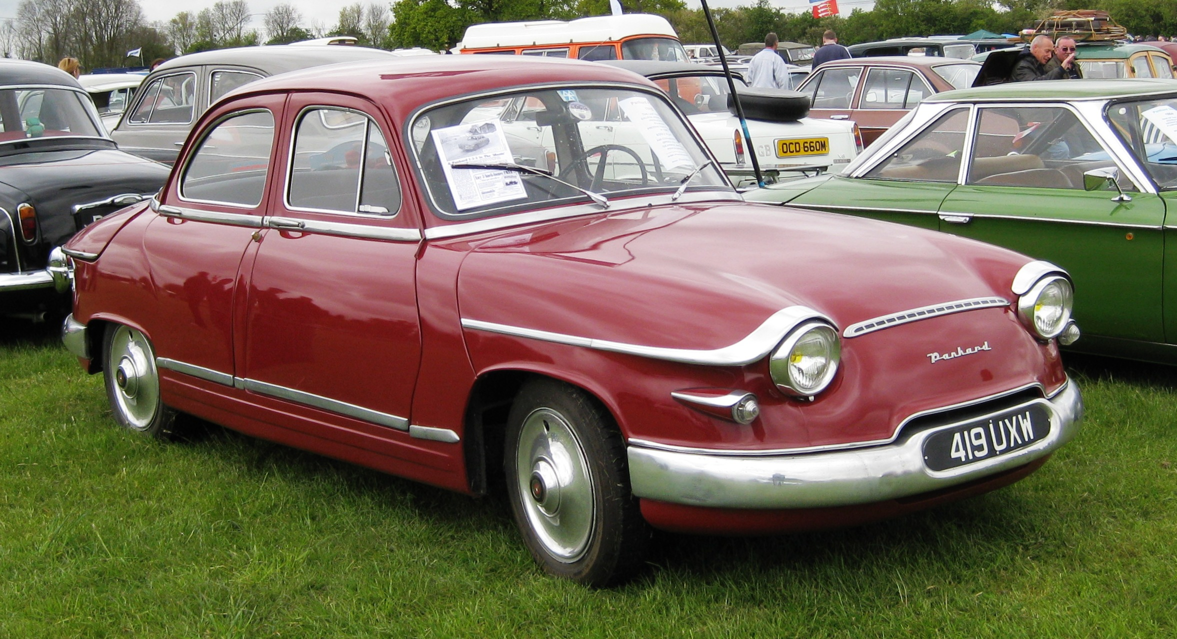 Panhard PL17 at Battlesbridge Classic Car Show